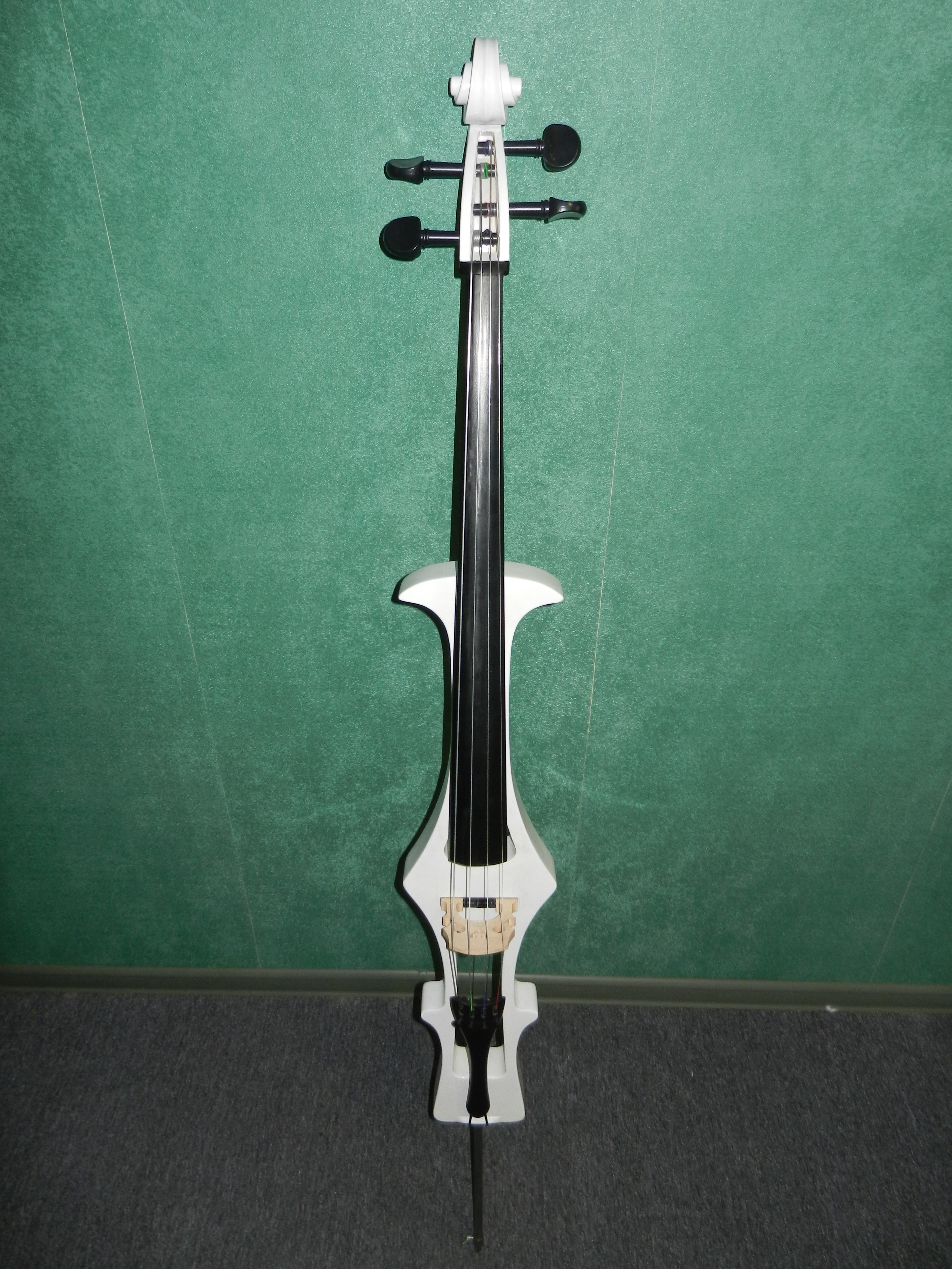 Electric cello (China)